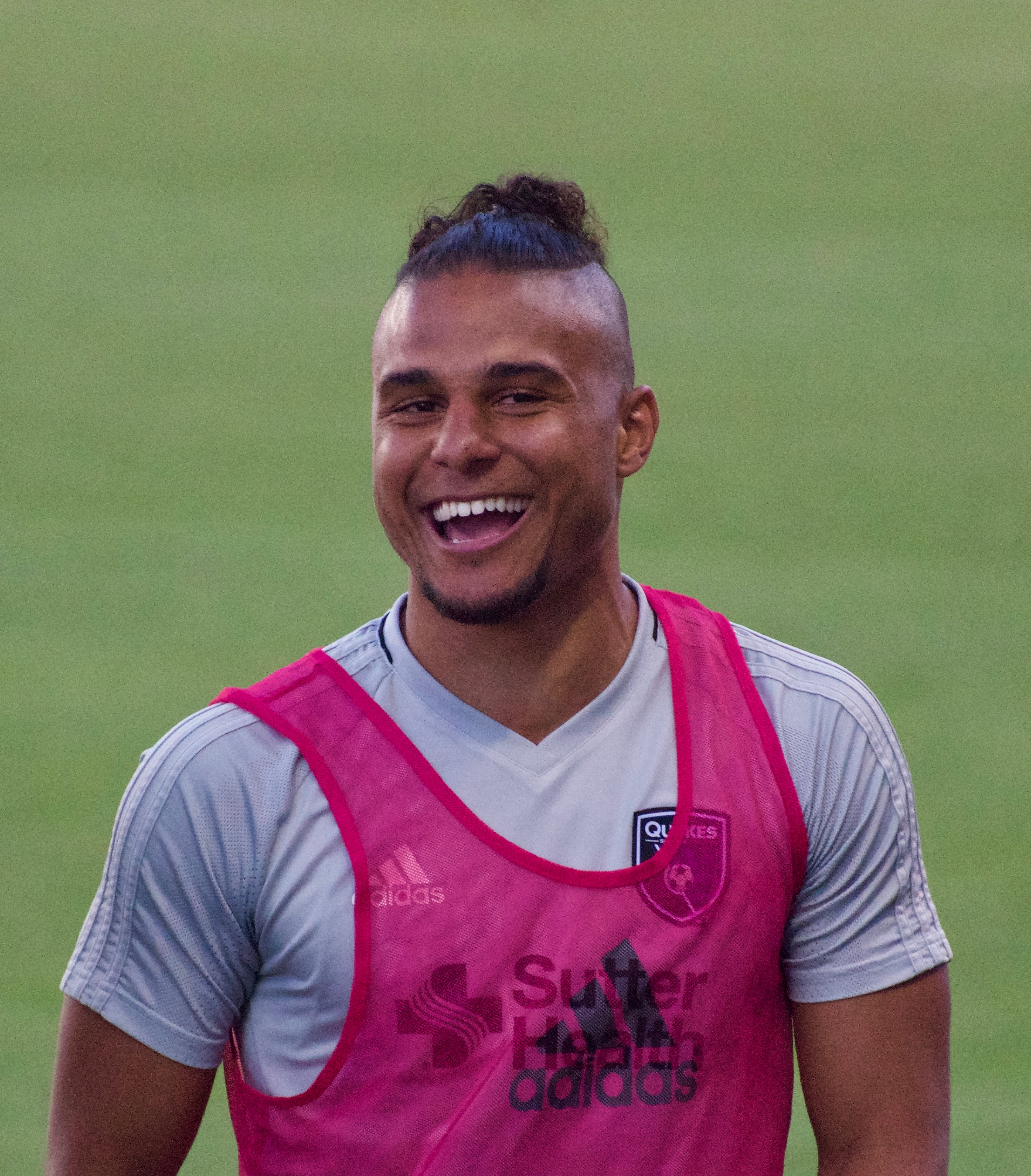 Quincy Amarikwa warming up at half-time for the San Jose Earthquakes, Avaya Stadium, 2017-07-29.